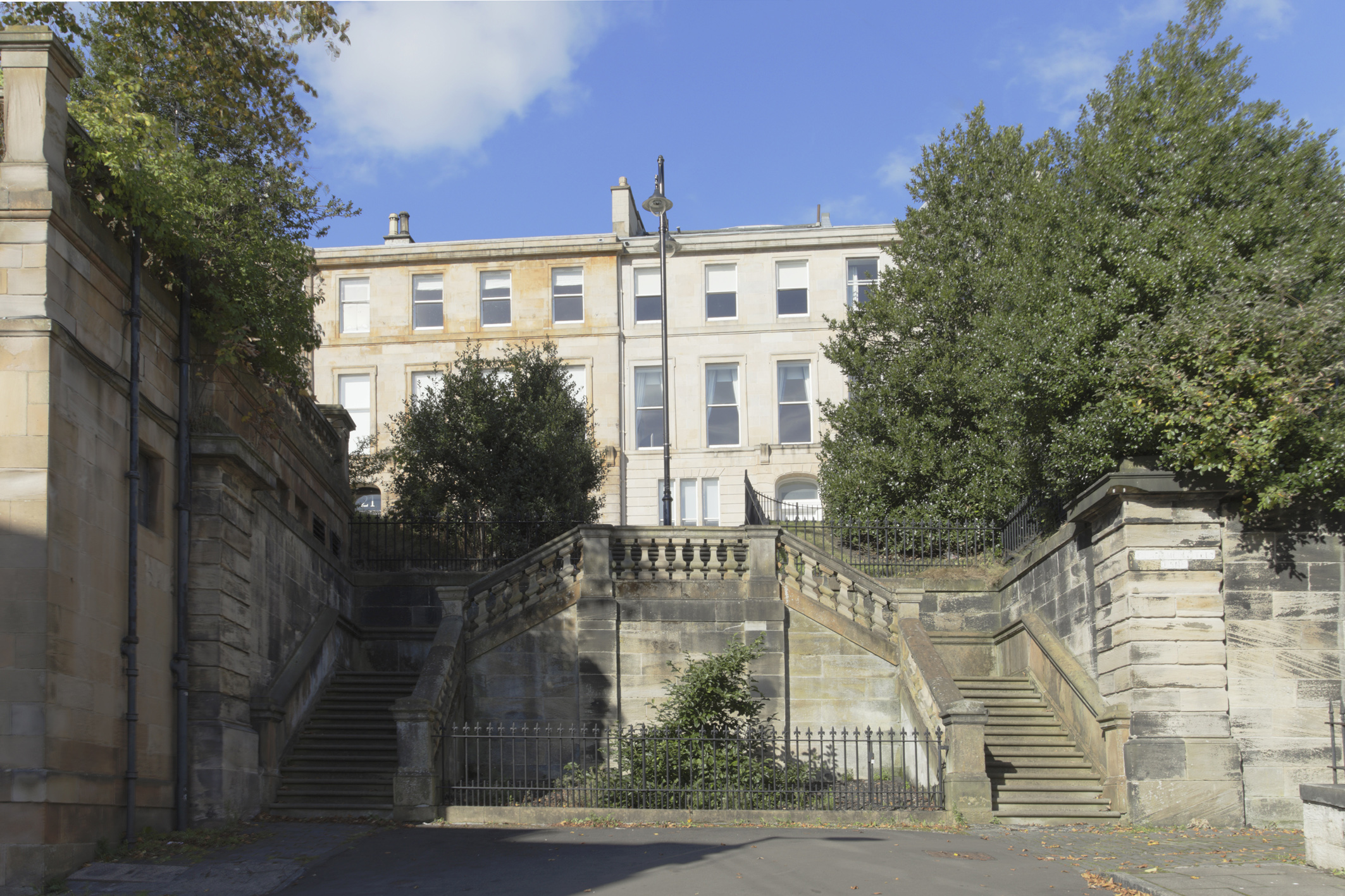 Stairway to Clilton Street on Woodlands Terrace